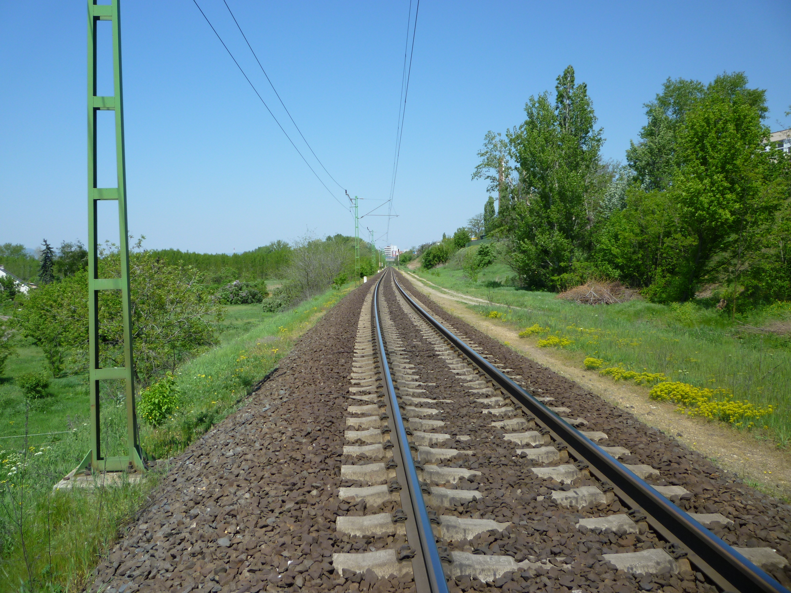 A part of the Budapest–Kelebia railway line at Budapest.